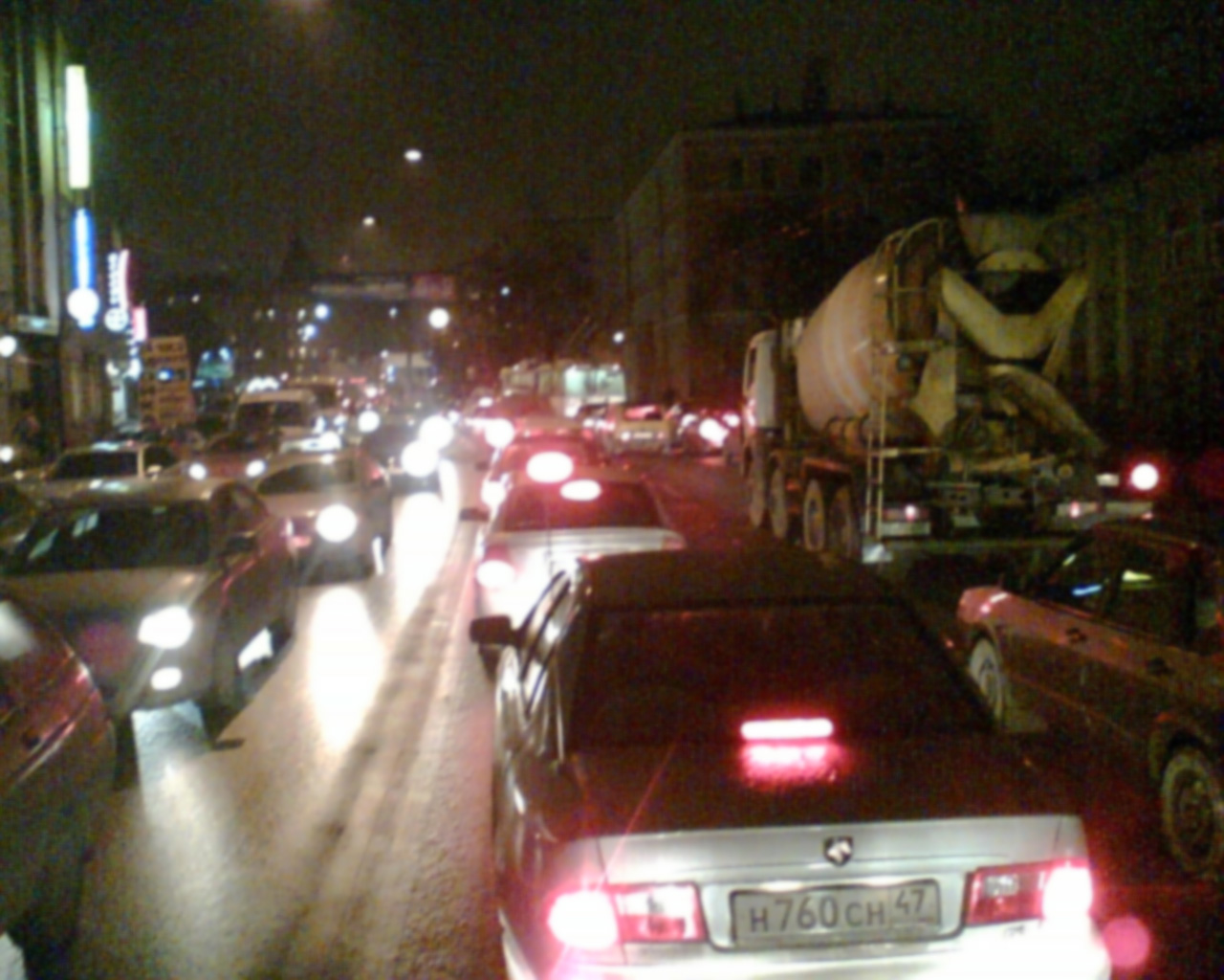 This is a common traffic jam in St. Petersburg, Russia. The photo was made on Medikov ave. (проспект Медиков) at about 7PM.